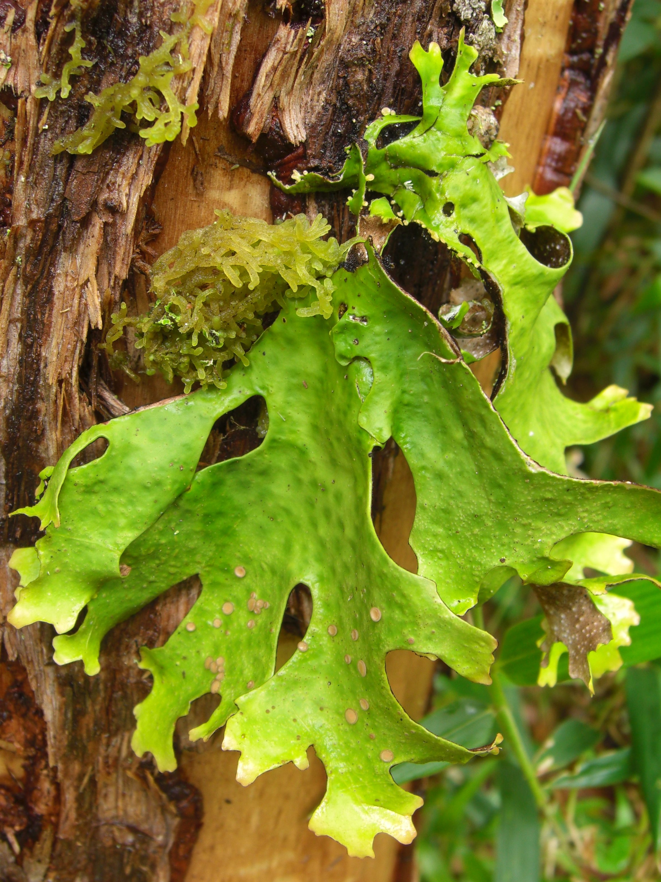 The lichen species Sticta ainoae D. Galloway & J. Pickering. Photographed in Parque Nacional Puyehue, Los Lagos, Chile.